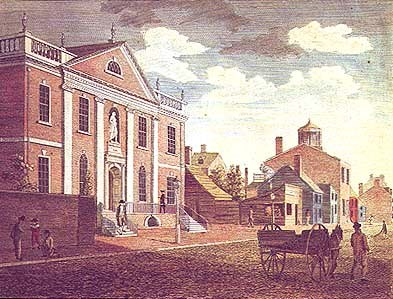 Library and Surgeon's Hall, Fifth-street in Philadelphia The American Philosophical Society re-created this facade in a new bulding put up on the same site.